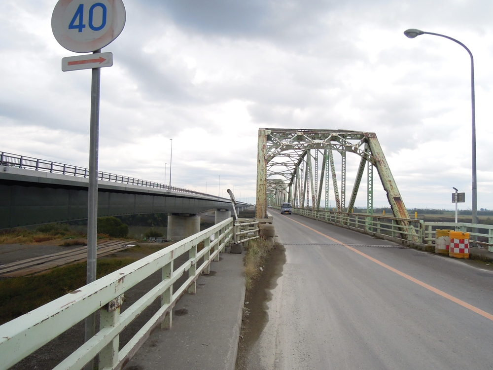 Tsukigata Ohashi (bridge) (Left: the new bridge under construction, Right: the old bridge)